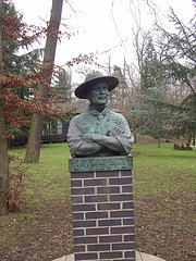 This is a bust of the founder of Scouting, Baden-Powell